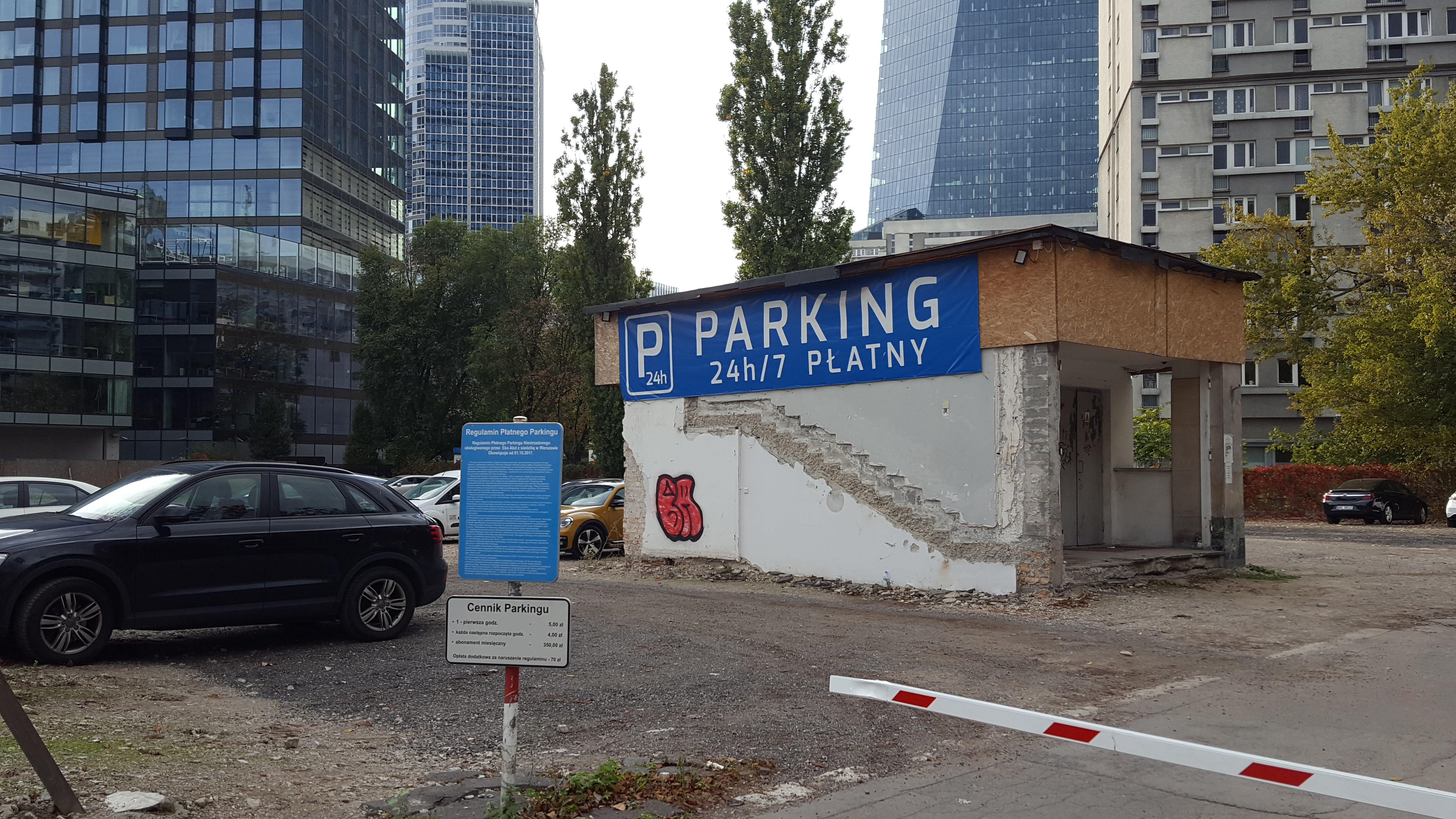 Site of former Jewish theatre, Warsaw